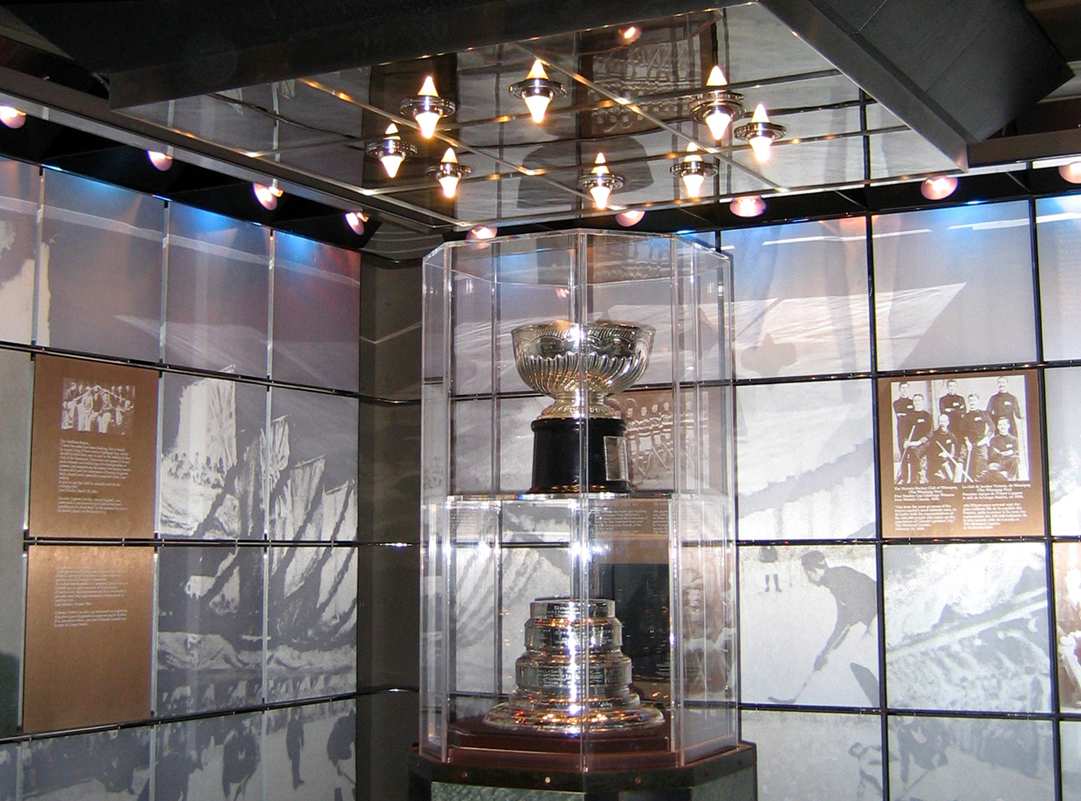 Rotated and slight color correction to Image:Hhof vault.jpg: Original Stanley Cup in the bank vault at the Hockey Hall of Fame.